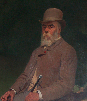 Jean Robie's portrait by André Hennebicq in front of the city hall of Saint-Gilles (Brussels).